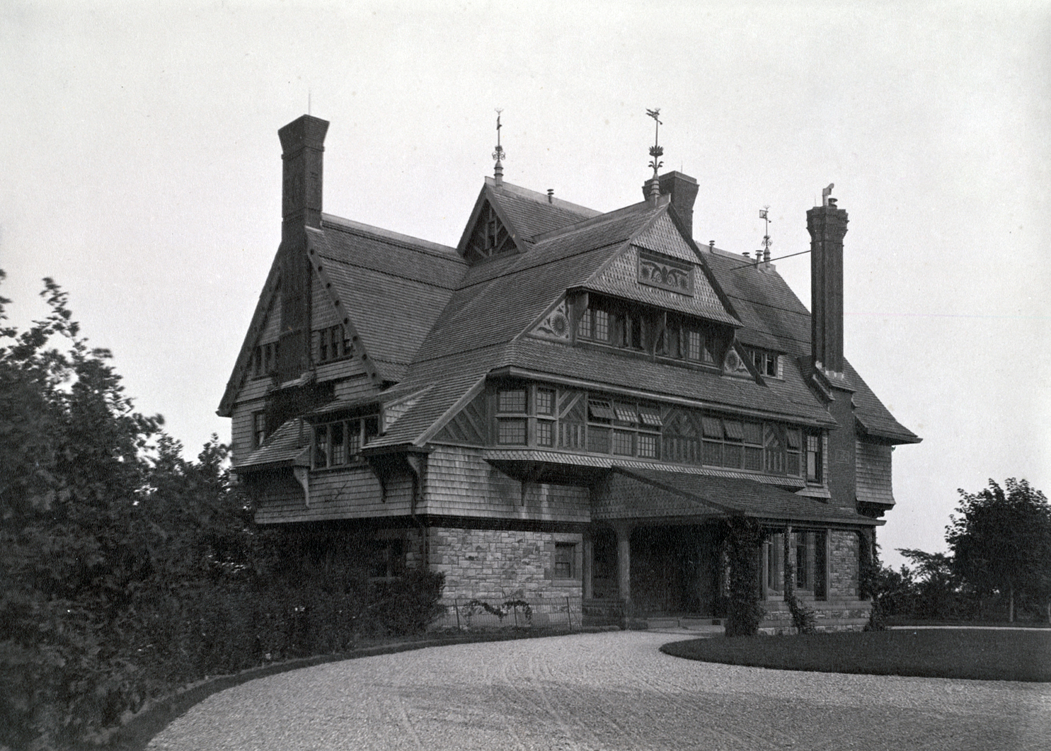 Collection: A. D. White Architectural Photographs, Cornell University Library Accession Number: 15/5/3090.00539 Title: Watts-Sherman House Architect: Henry Hobson Richardson (American, 1838-1886) Building Date: 1874-1875 Photograph date: ca. 1875-ca. 1895 Location: North and Central America: United States; Rhode Island, Newport Materials: albumen print Image: 5 7/8 x 8 1/8 in.; 14.9225 x 20.6375 cm Style: Shingle Style Provenance: Transfer from the College of Architecture, Art and Planning Persistent URI: There are no known U.S. copyright restrictions on this image. The digital file is owned by the Cornell University Library which is making it freely available with the request that, when possible, the Library be credited as its source.